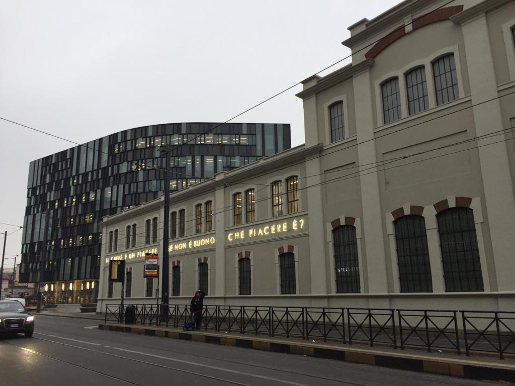 Back of Museo Lavazza